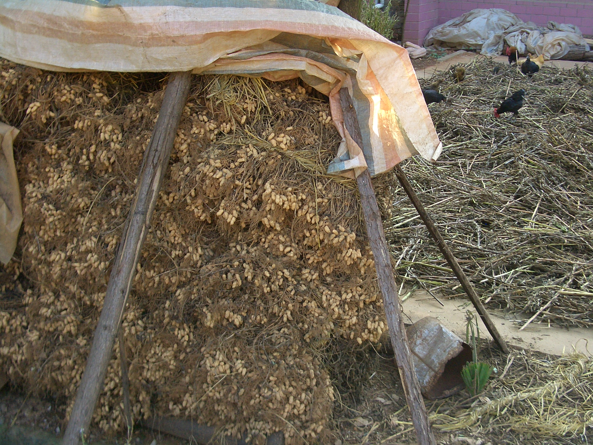 Recently harvested peanut plants stacked by a village house in the southern Jiangxia District, City of Wuhan